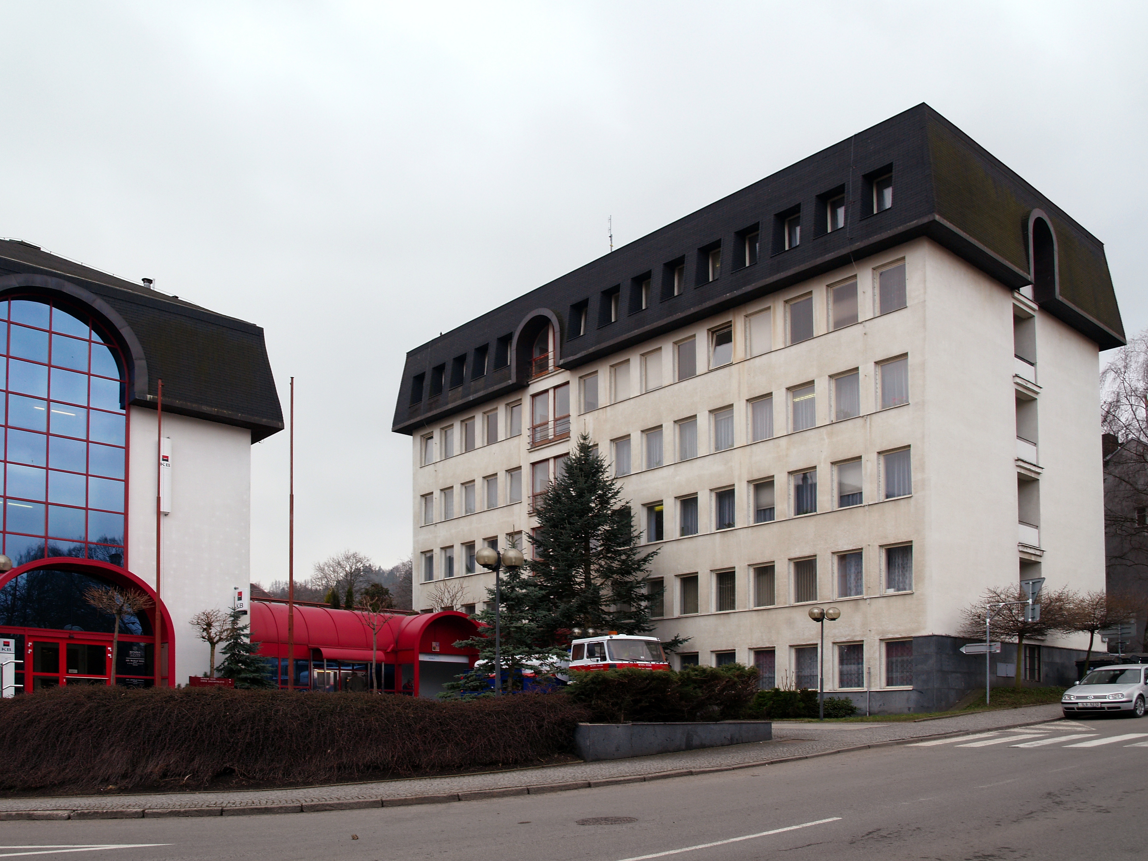 Czech town Semily—Local Courthouse for Semily District (right; entrance in the middle)